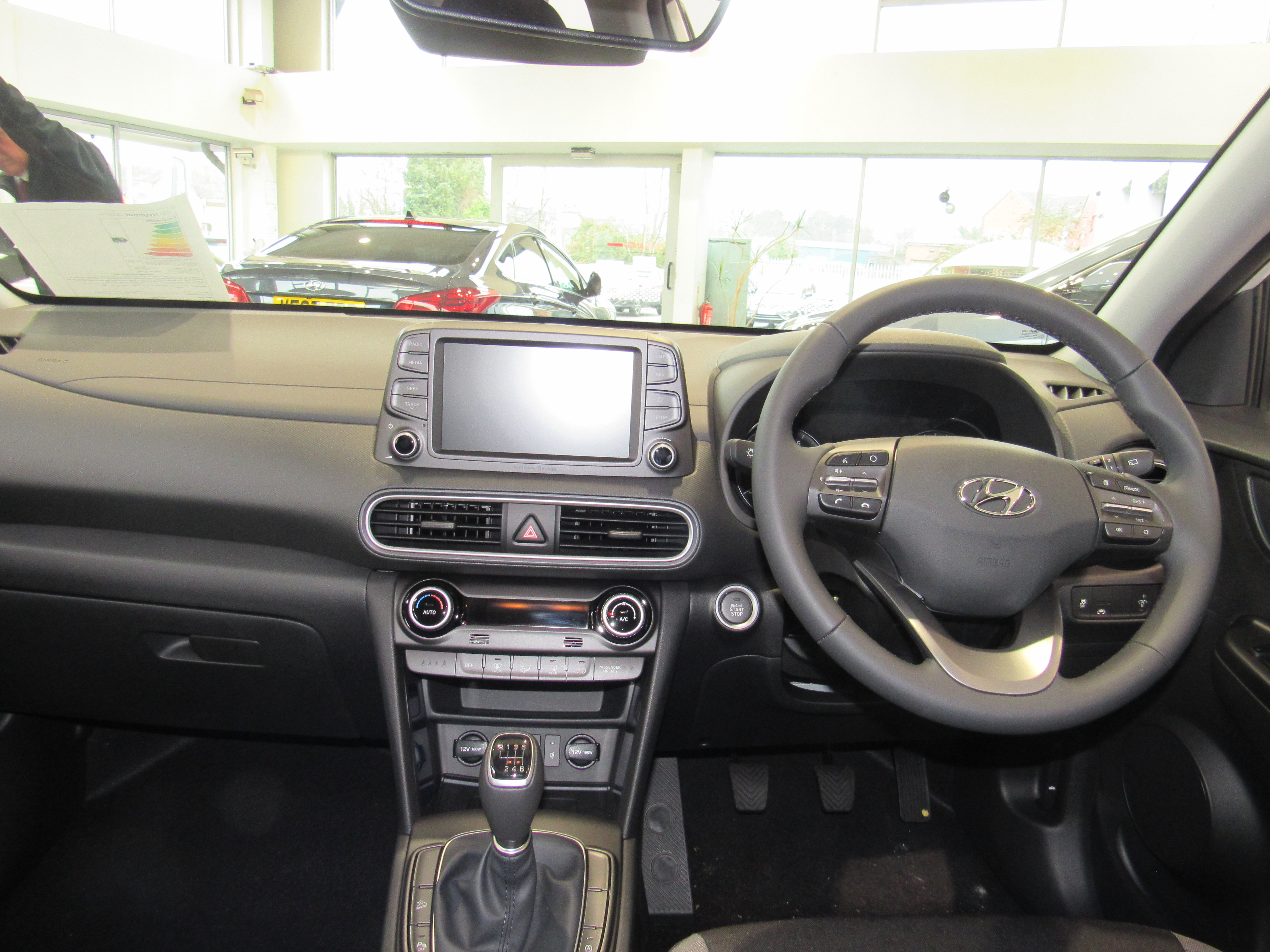 2017 Hyundai Kona Interior Taken in Warwick